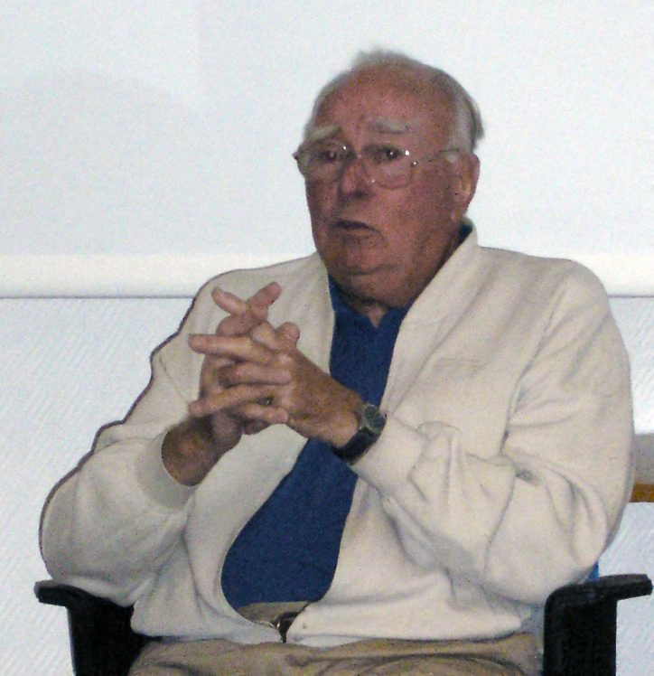 Erik Carlsson at the International SAAB Club Meeting 2006.